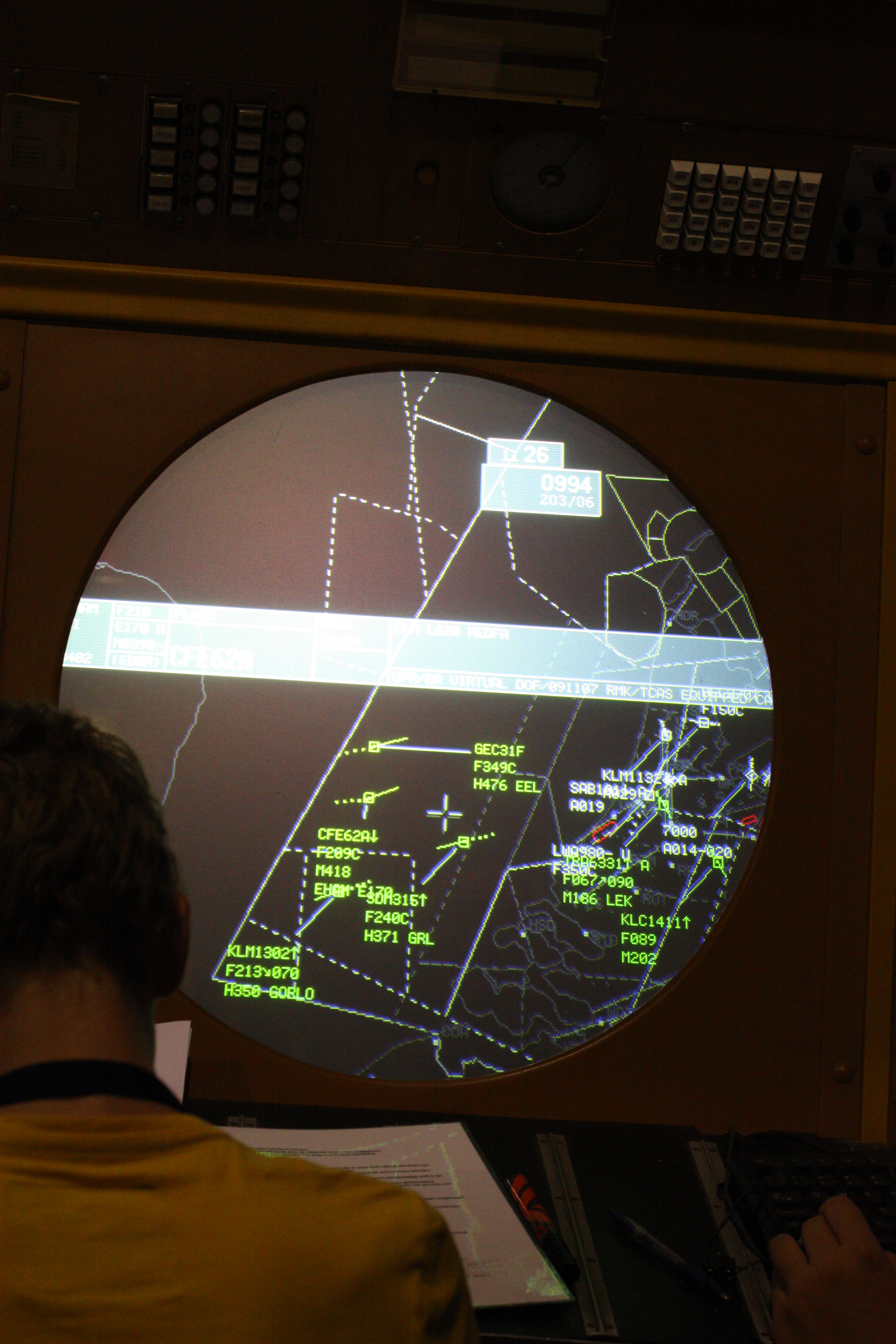 Lelystad Flugsimulatorwochenende, bei Amsterdam, November 2009; Flight Simulation conference at Aviodrome Lelystad